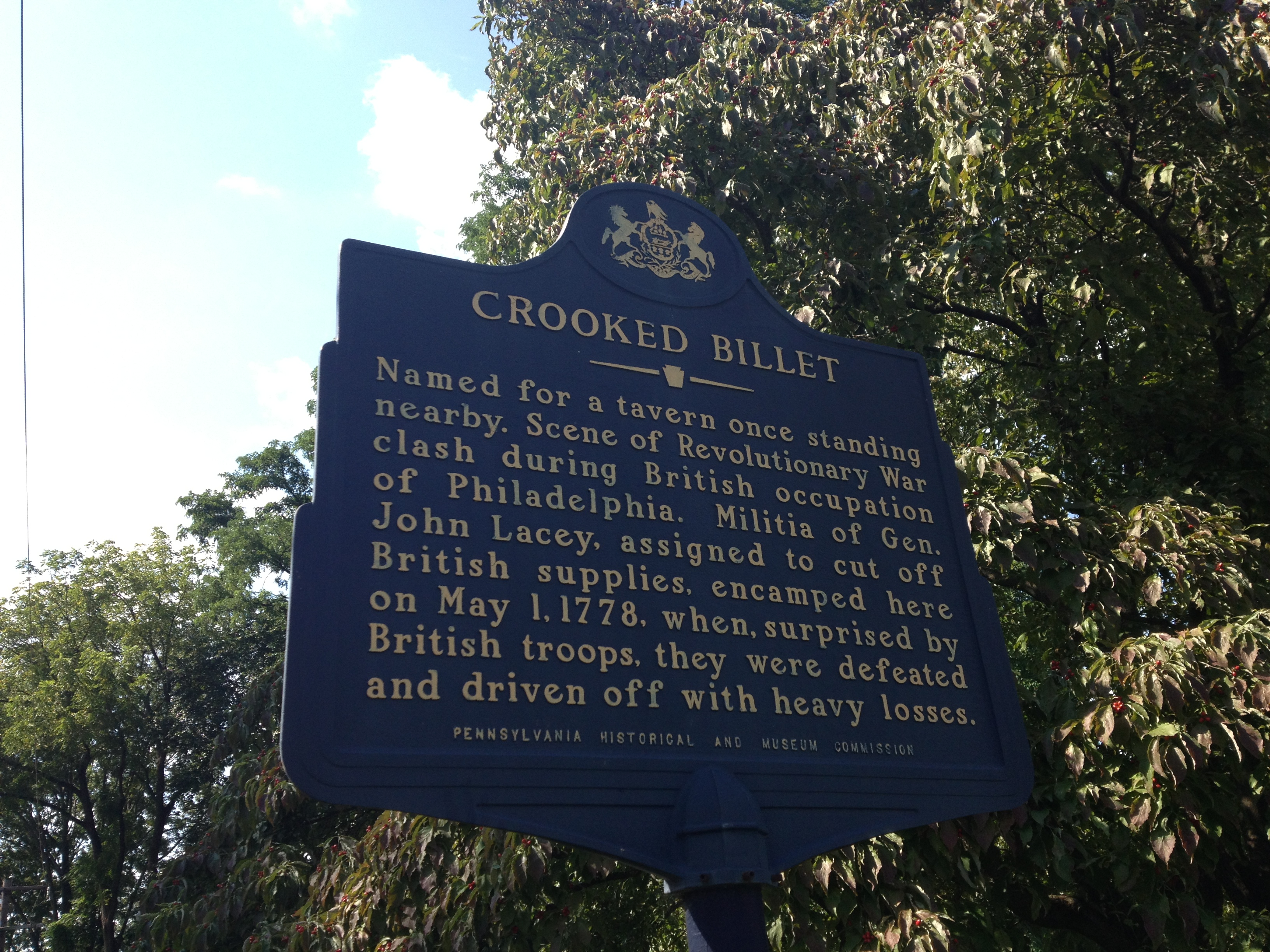 A Pennsylvania historical marker for the Battle of Crooked Billet located in front of Crooked Billet Elementary School in Hatboro